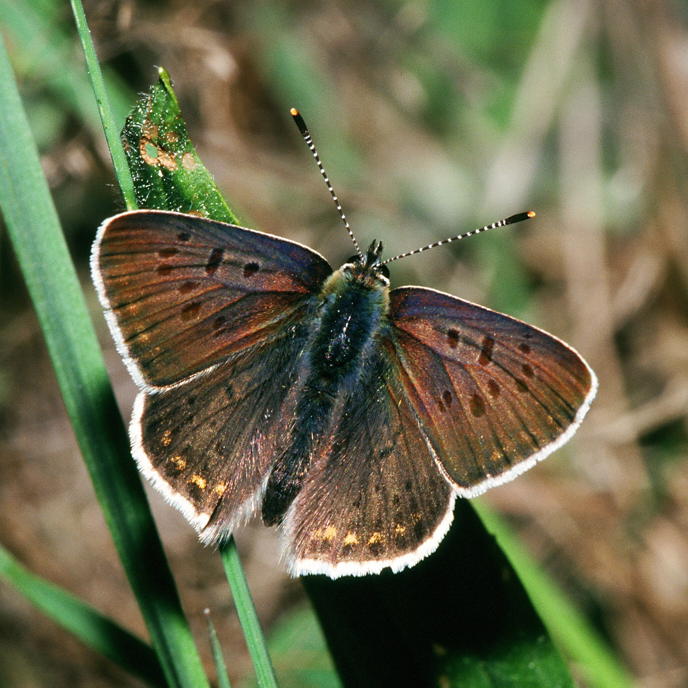 Sooty Copper (Lycaena tityrus)